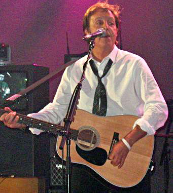 Paul McCartney performs the Beatles' song "Blackbird" during his BBC Electric Proms performance at the Roundhouse in Camden, London, England.